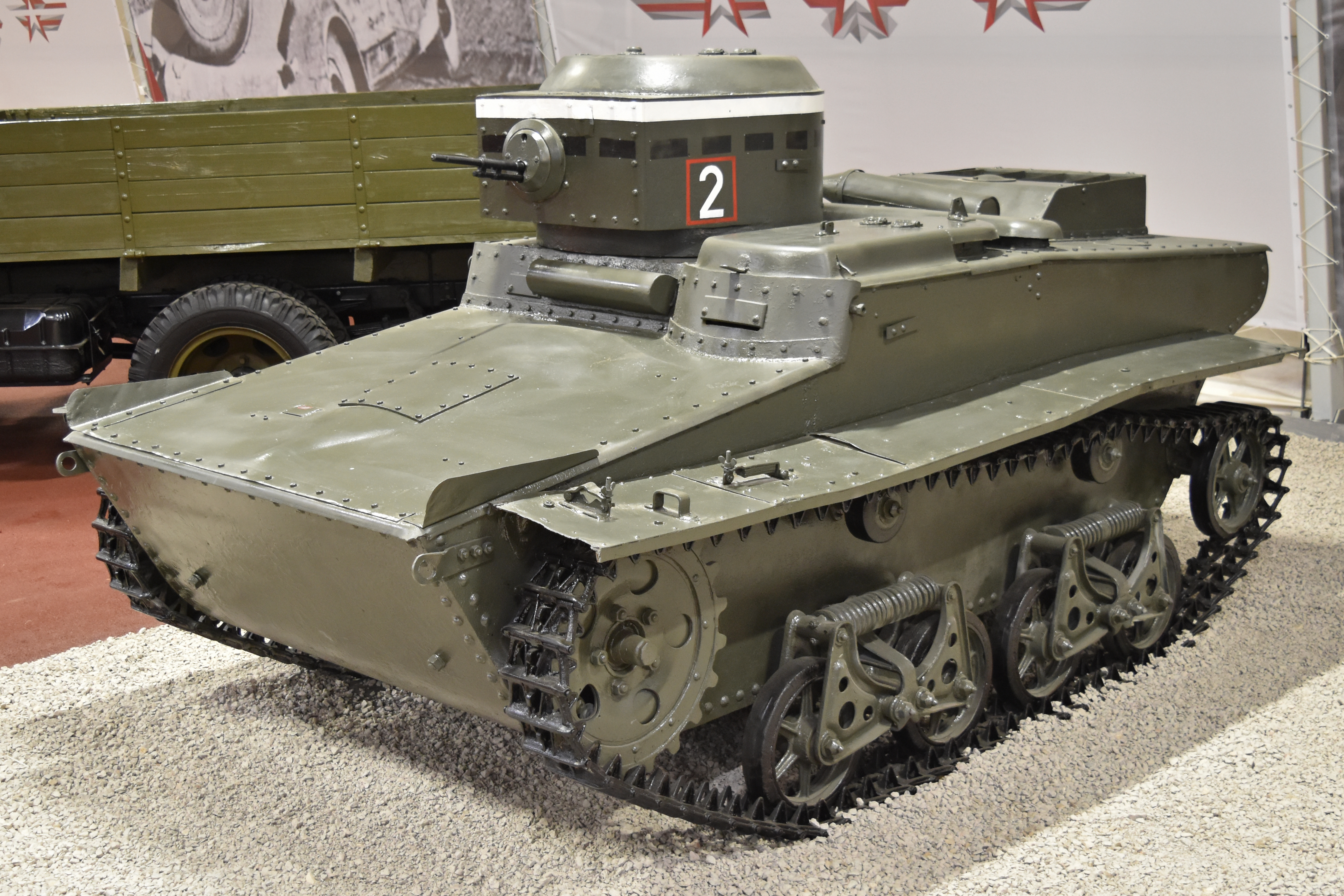 Soviet WW2 era Amphibious Light Tank Manufacturer:- Factory No37, Moscow Built:- 1933 to 1936 Total Production:- 1,200 Main Armament:- 7.62mm DT machine gun The T-37A was the world’s first mass-produced amphibious tank. It was designed for reconnaissance, communication and infantry support, rather than fighting other tanks. They were used during the Soviet invasion of Poland and in the 1939/40 Winter War in Finland. On display in Hall 8 of the Patriot Museum Complex. Park Patriot, Kubinka, Moscow Oblast, Russia. 25th August 2017